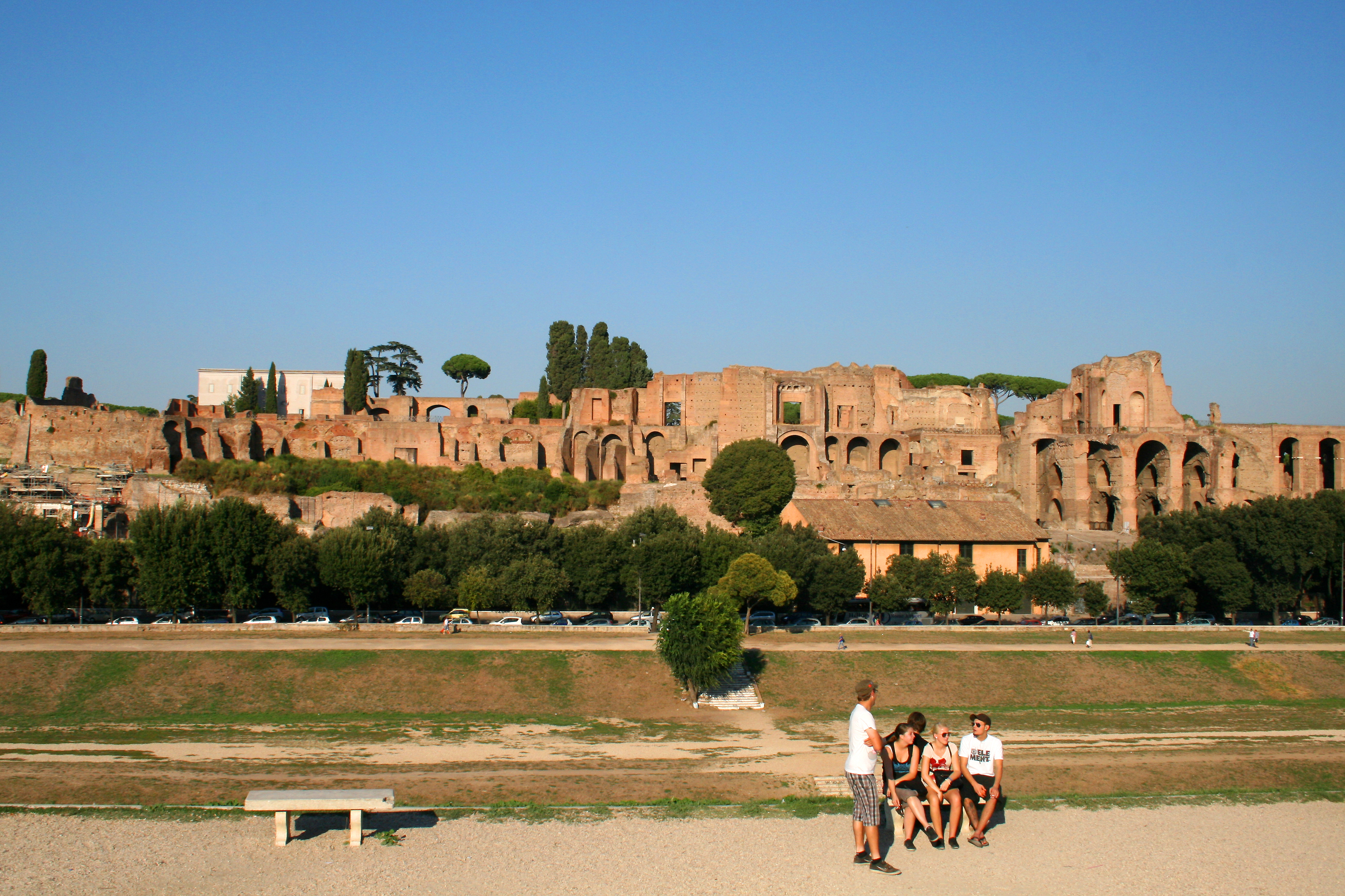 Central part of Circus Maximus and ruins of the Domus Augustana on Palatine Hill viewed from the Piazalle Ugo La Malfa.